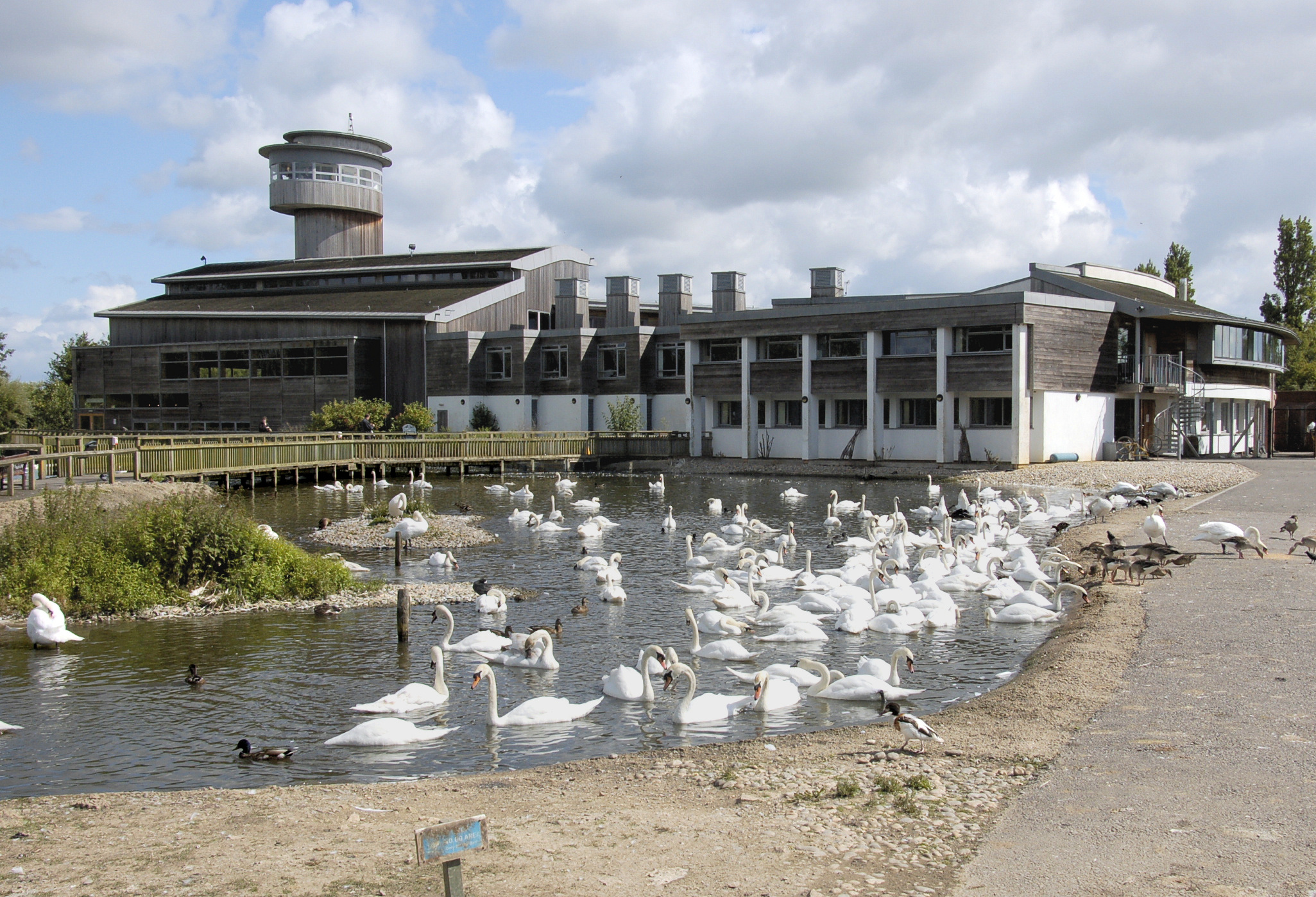 General view in summer of a very small part of the Slimbridge Wildfowl and Wetlands Centre, Gloucestershire, England. Looking across to the main building and Severn View Observation Tower. The swans are Mute Swans.